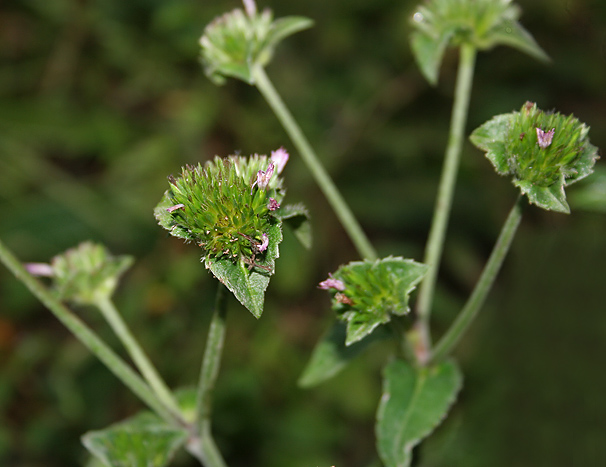 PRICKLY-LEAVED ELEPHANT'S FOOT Elephantopus scaber in Narsapur, Andhra Pradesh, India.